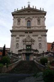 Facade of the chapel of Ss. Dominic & Sixtus at the Pontifical University of St. Thomas Aquinas in Rome.